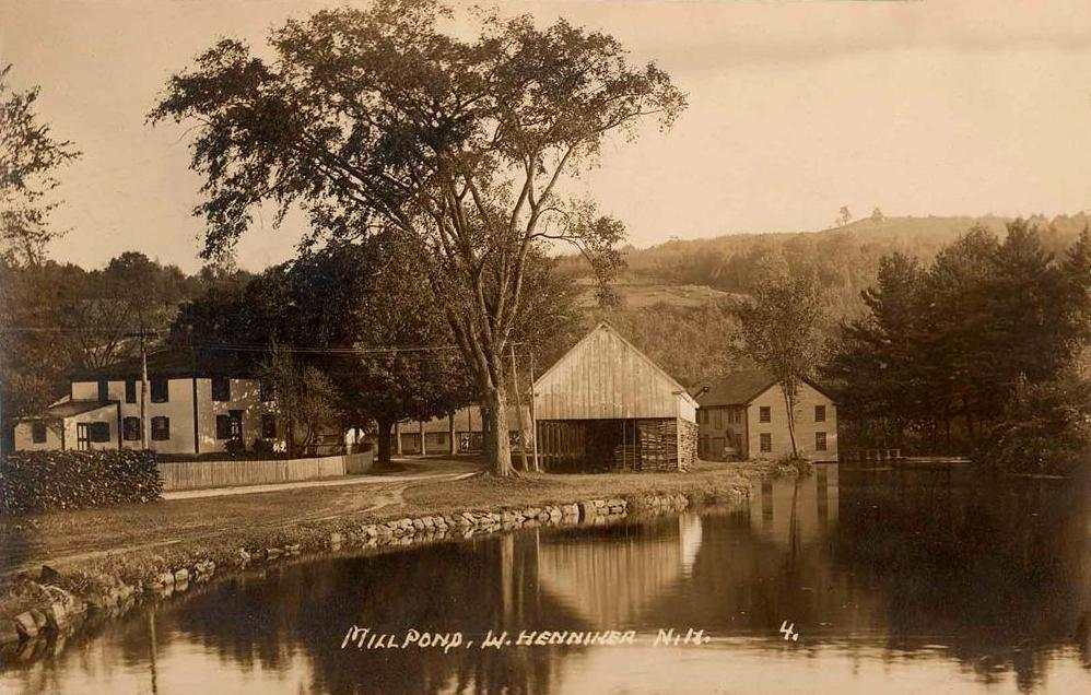 Millpond, West Henniker, New Hampshire